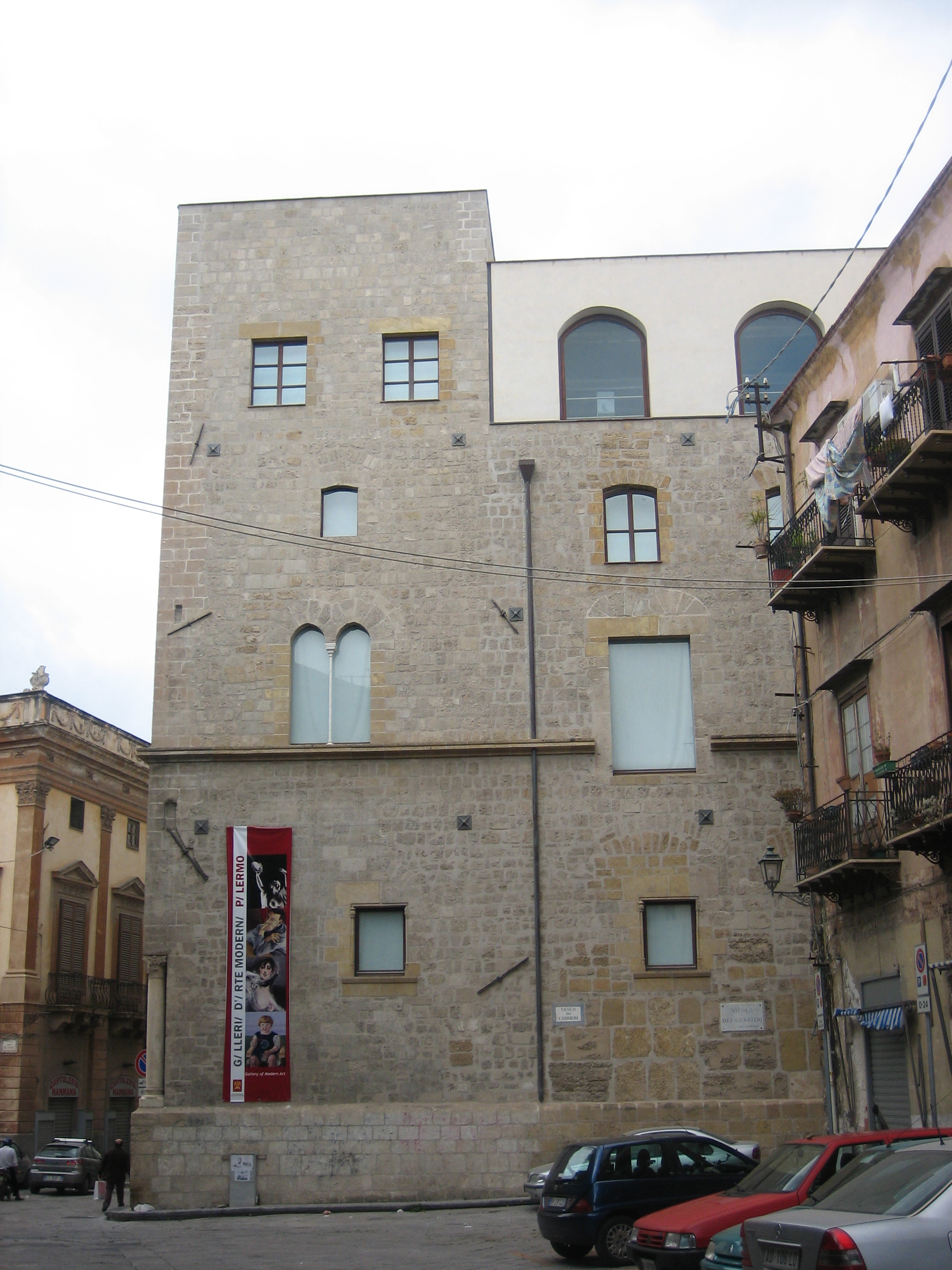 Side view of the Gallery Modern Art of Palermo.